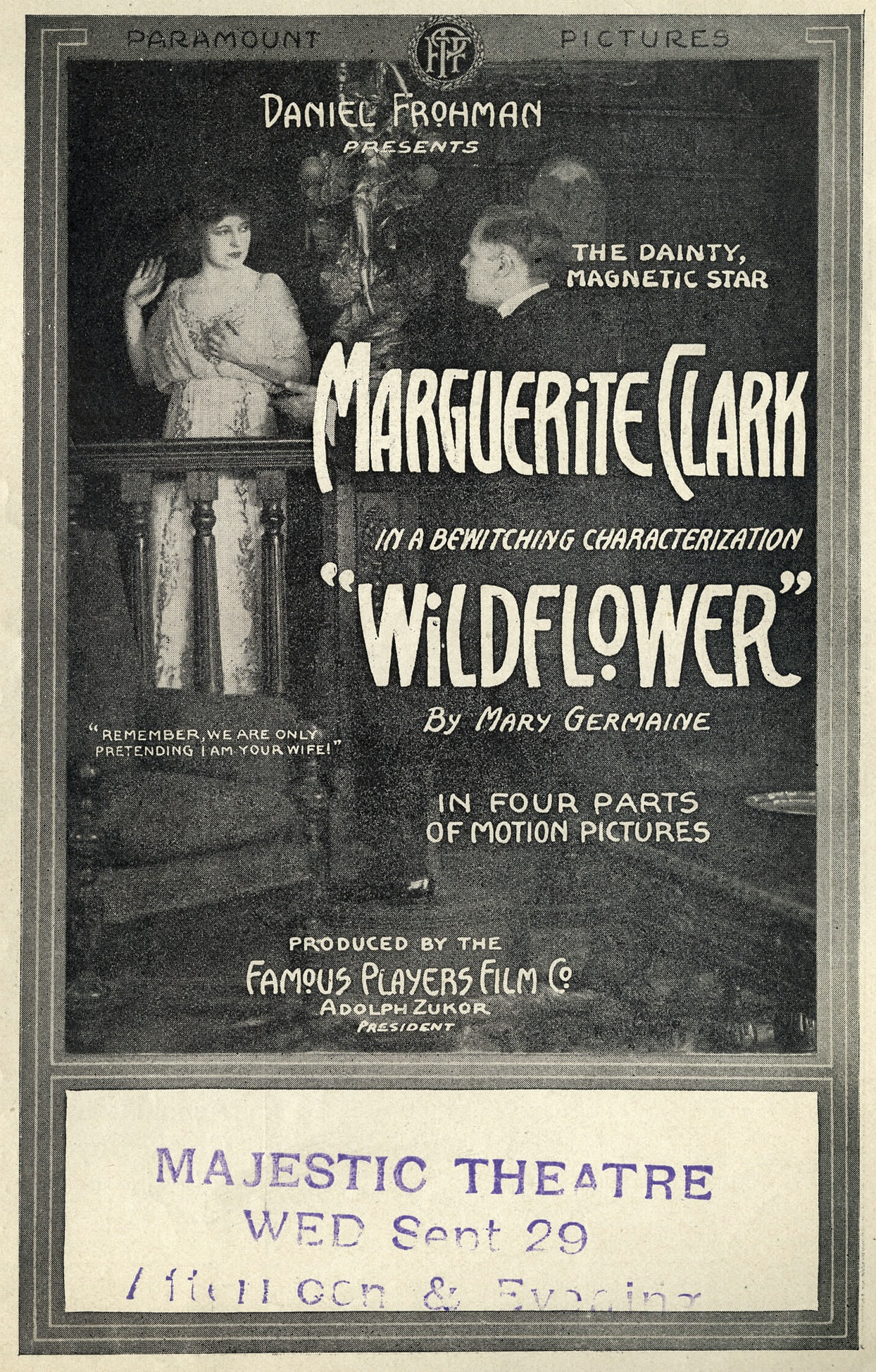 For article Wildflower, this is a theatrical poster for the 1914 film Wildflower, and was first published before 1923.